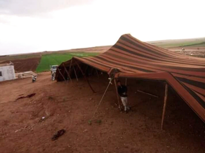 This is an image with the theme "Africa on the Move or Transport" from: Algeria